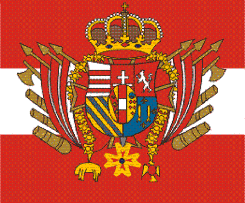 Naval Ensign of the Grand Duchy of Tuscany, except from 1848 to 49.